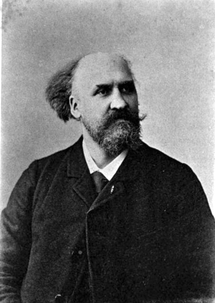 Charles Lepneveu, French composer (1840 – 1910)